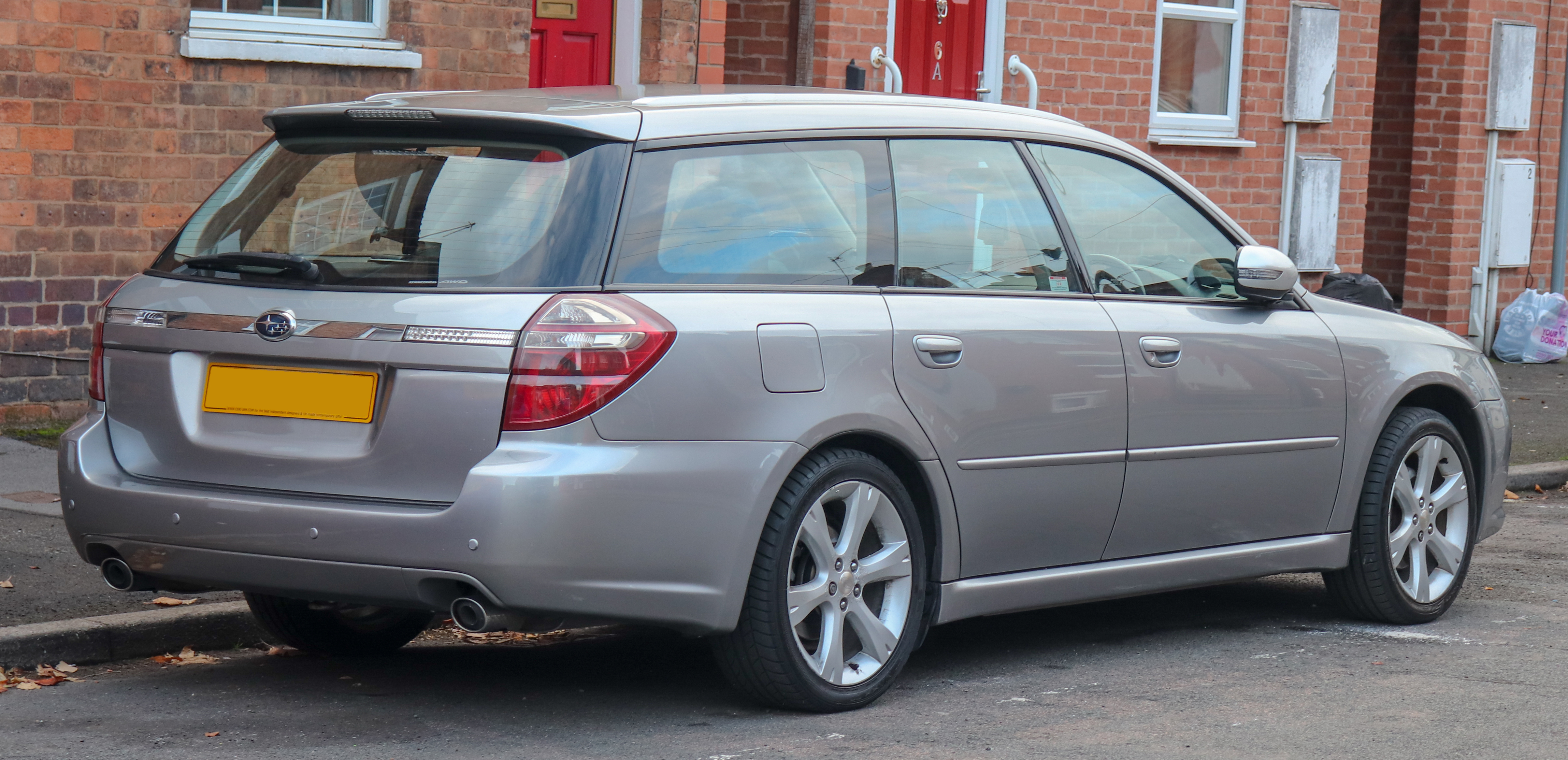 2008 Subaru Legacy Sports Tourer REn 2.0 Rear Taken in Warwick